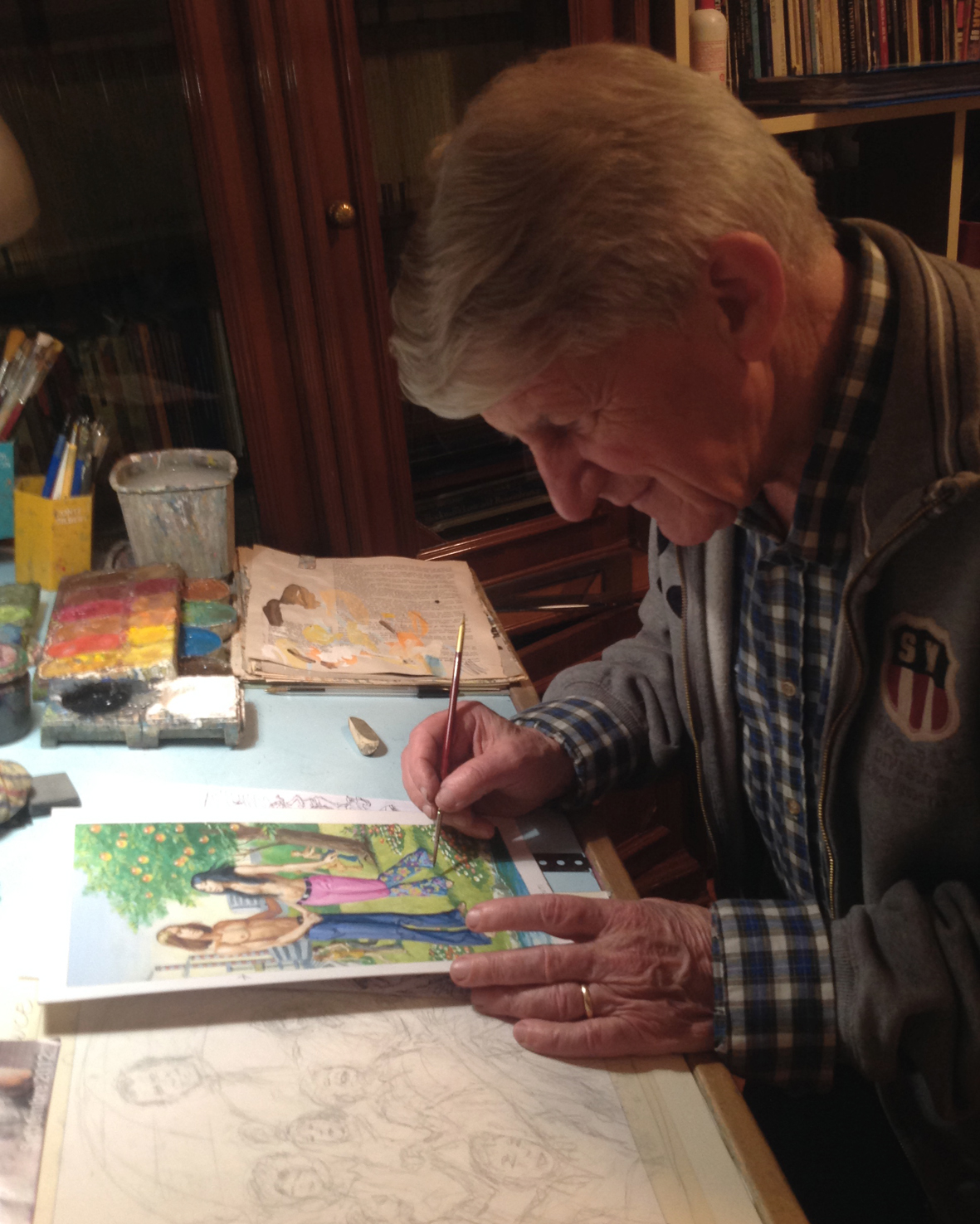 Italian painter Severino Baraldi working on the subject "The Lovers", for the The Prophetic Tarot of the Bible, following the story board written by Giordano Berti